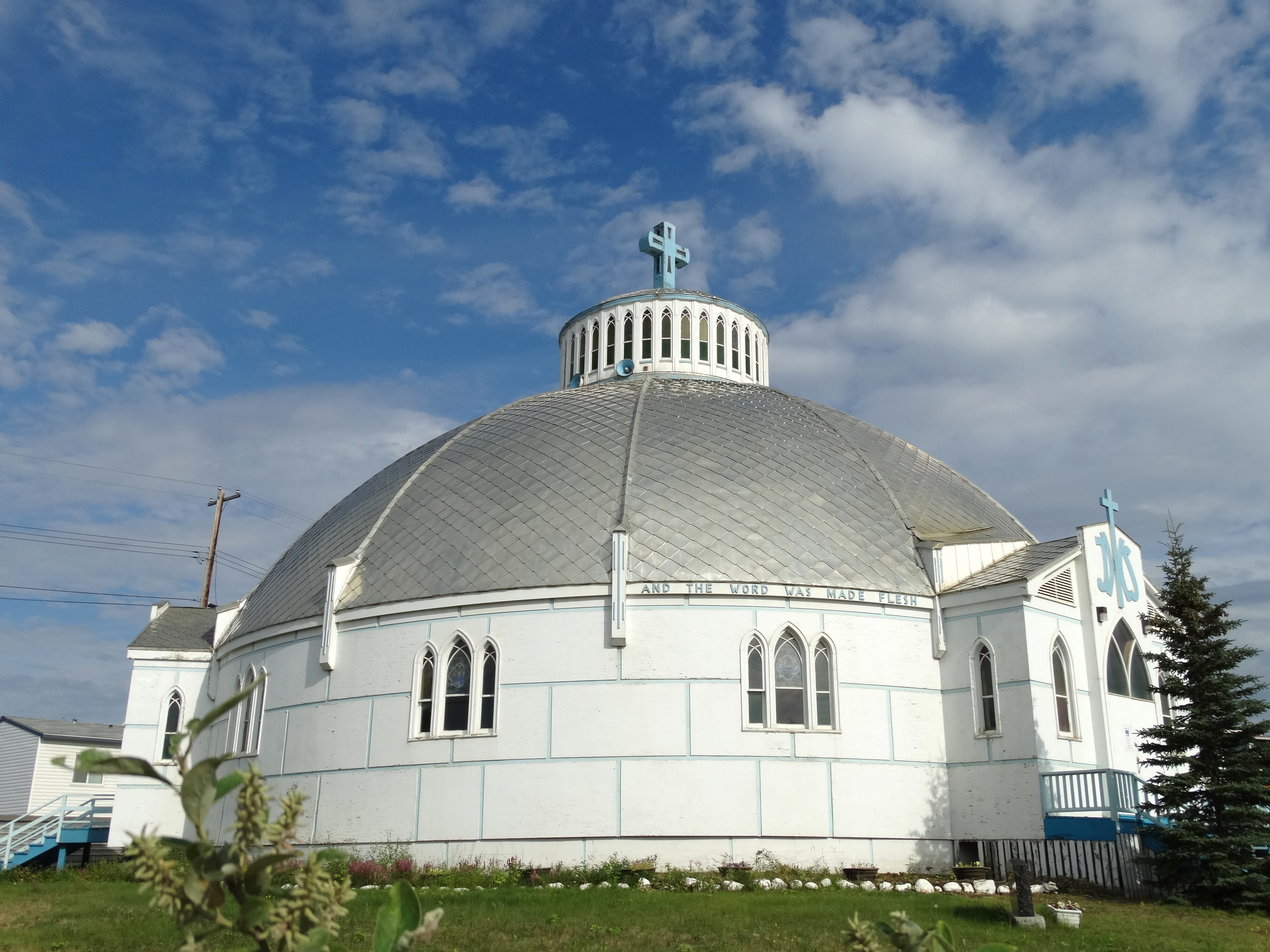 Our Lady of Victory - Igloo-Shaped Church - Inuvik - Northwest Territories - Canada - 01